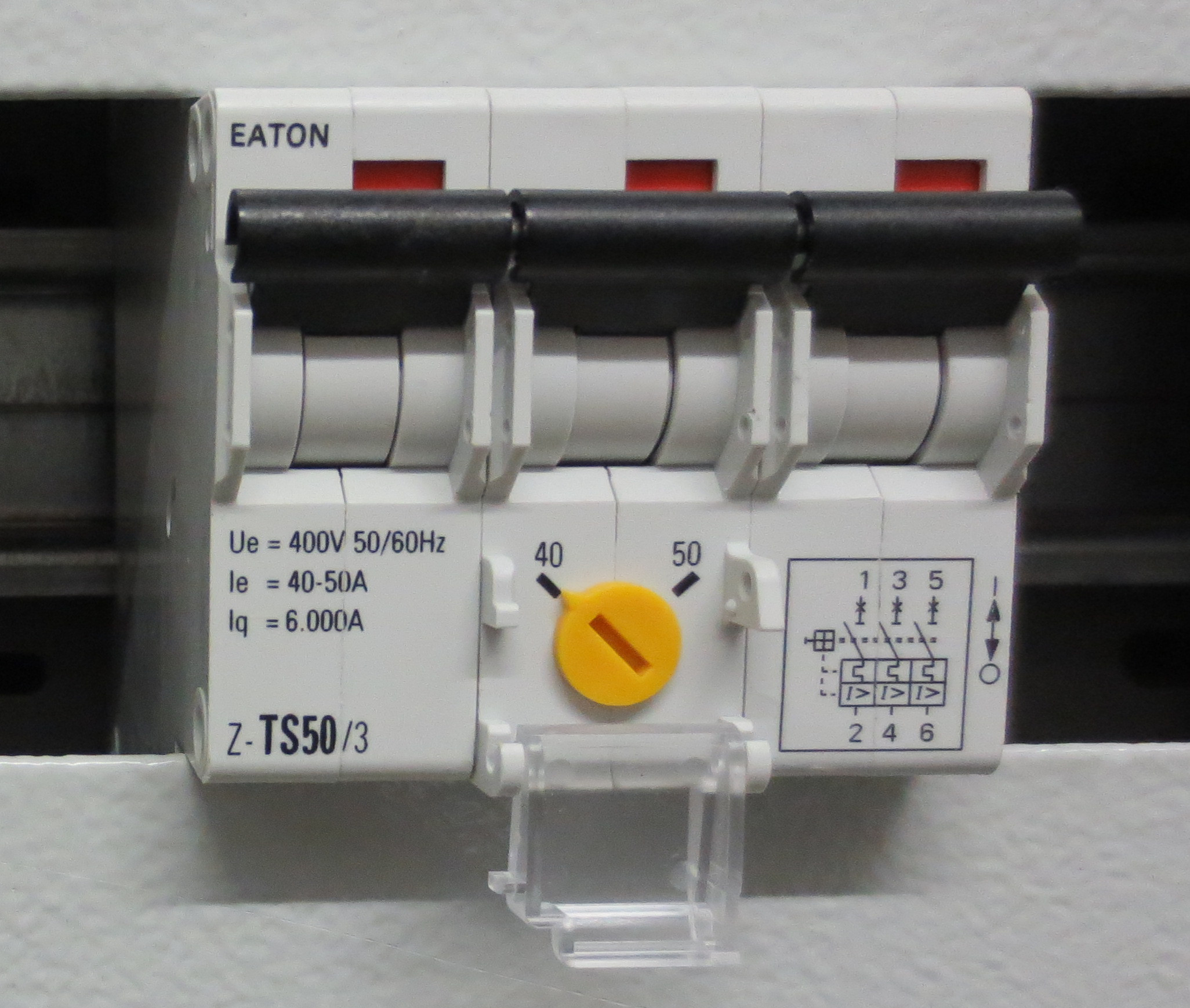 three-pole tariff switch with an adjustment range of 40–50 A of rated current, trip current set to 40 A, switched on, mounted on DIN rail, yellow set screw with opened transparent unsealed cover cap